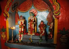 ram methavade